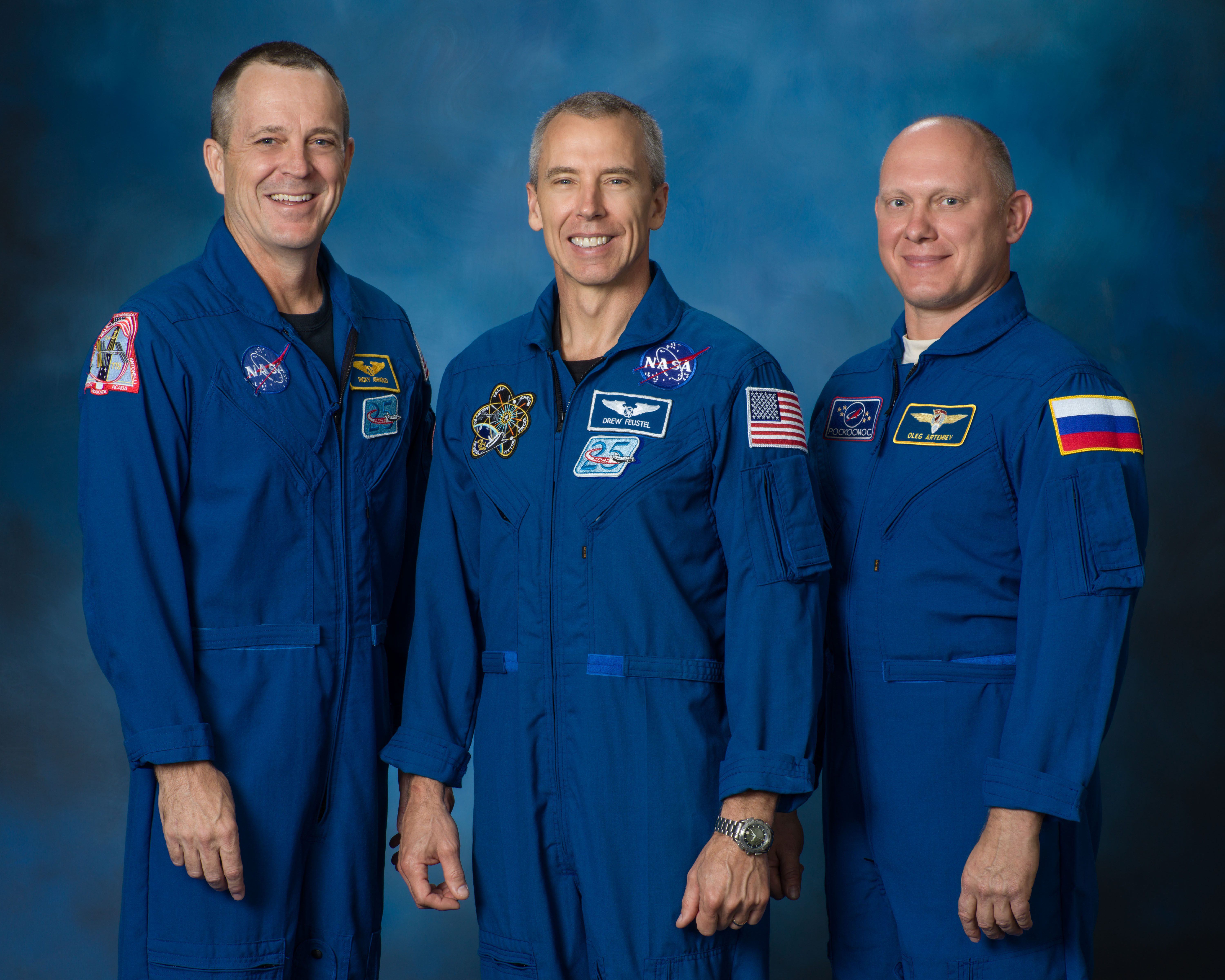 Expedition 55 crew portrait with (from left) NASA astronauts Richard Arnold, Andrew J. Feustel (Expedition 56 Commander), and Russian cosmonaut Oleg Artemyev.